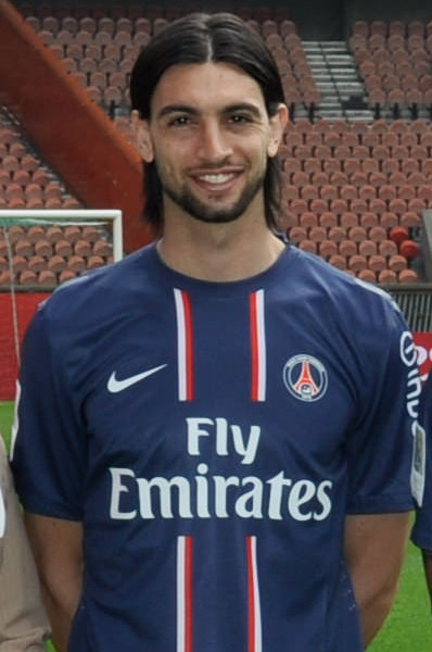 Javier Pastore, Thiago Silva, Zlatan Ibrahimovic, Blaise Matuidi with Emirates flight attendants, 2013 at Parc des Princes in Paris.